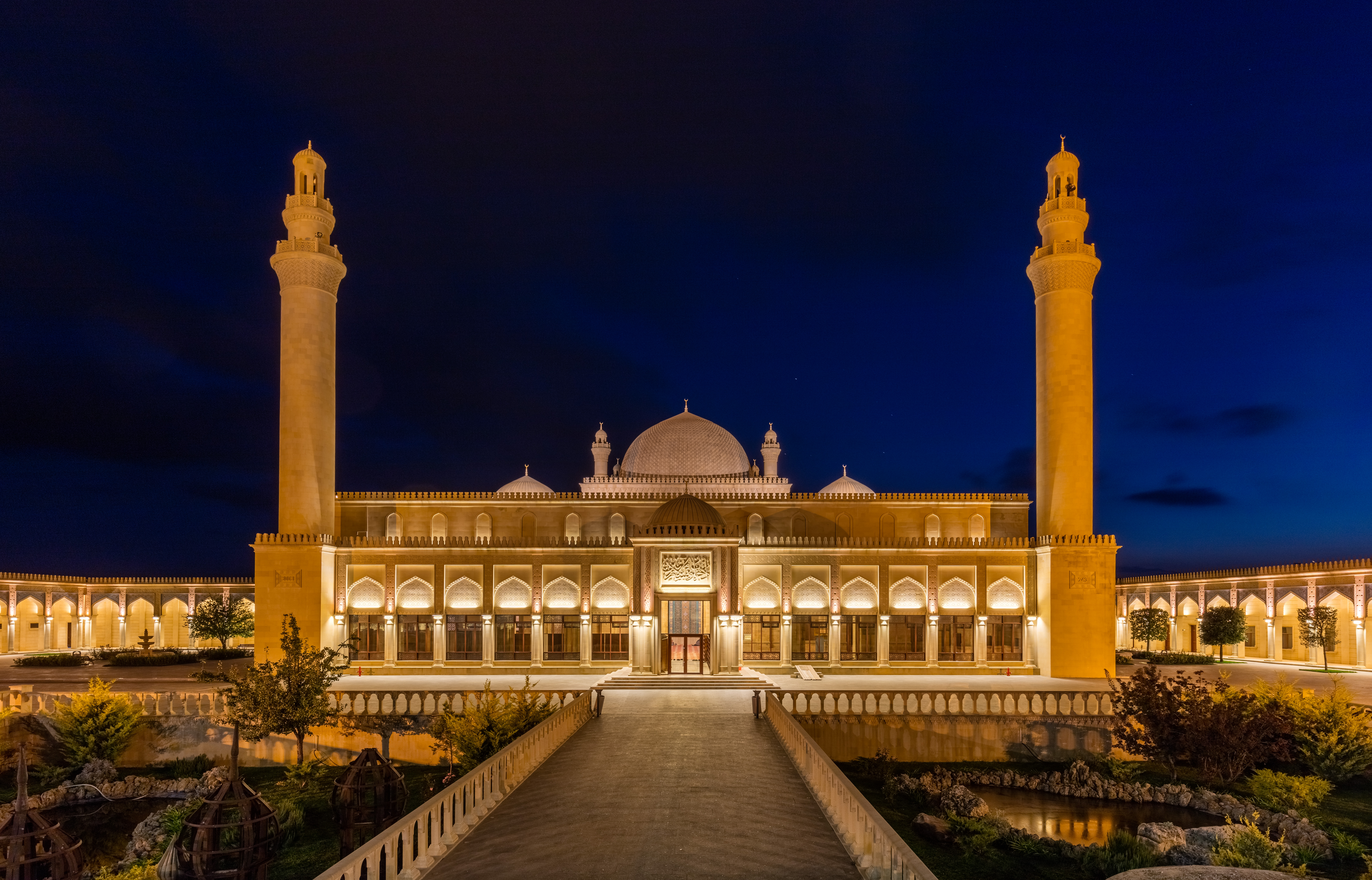 Friday Mosque, Shamakhi, Azerbaijan